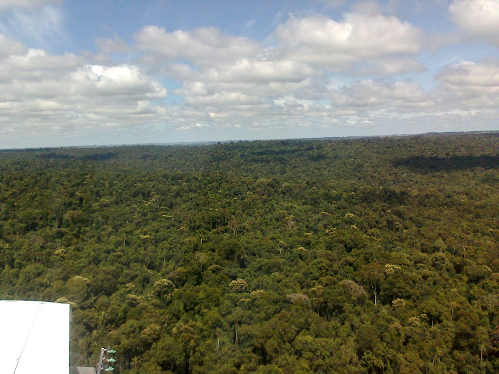 Perobas Biological Reserve — in Paraná, Brazil. Atlantic Forest ecoregion flora (Mata Atlântica).